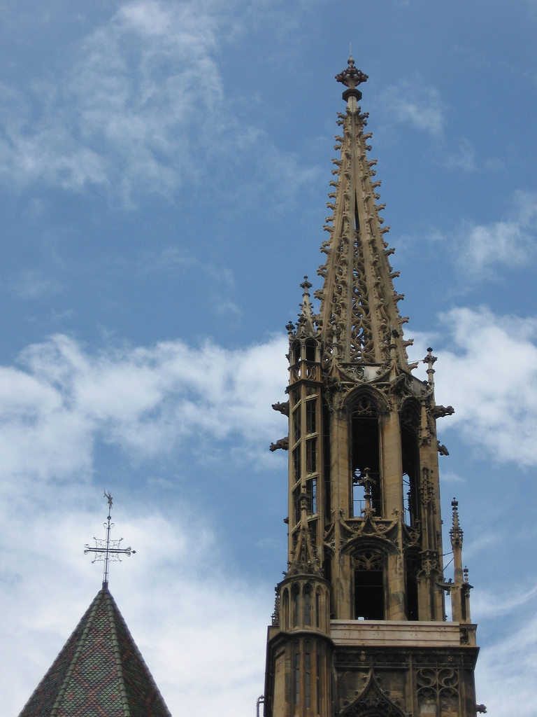 Thann's church tower detail